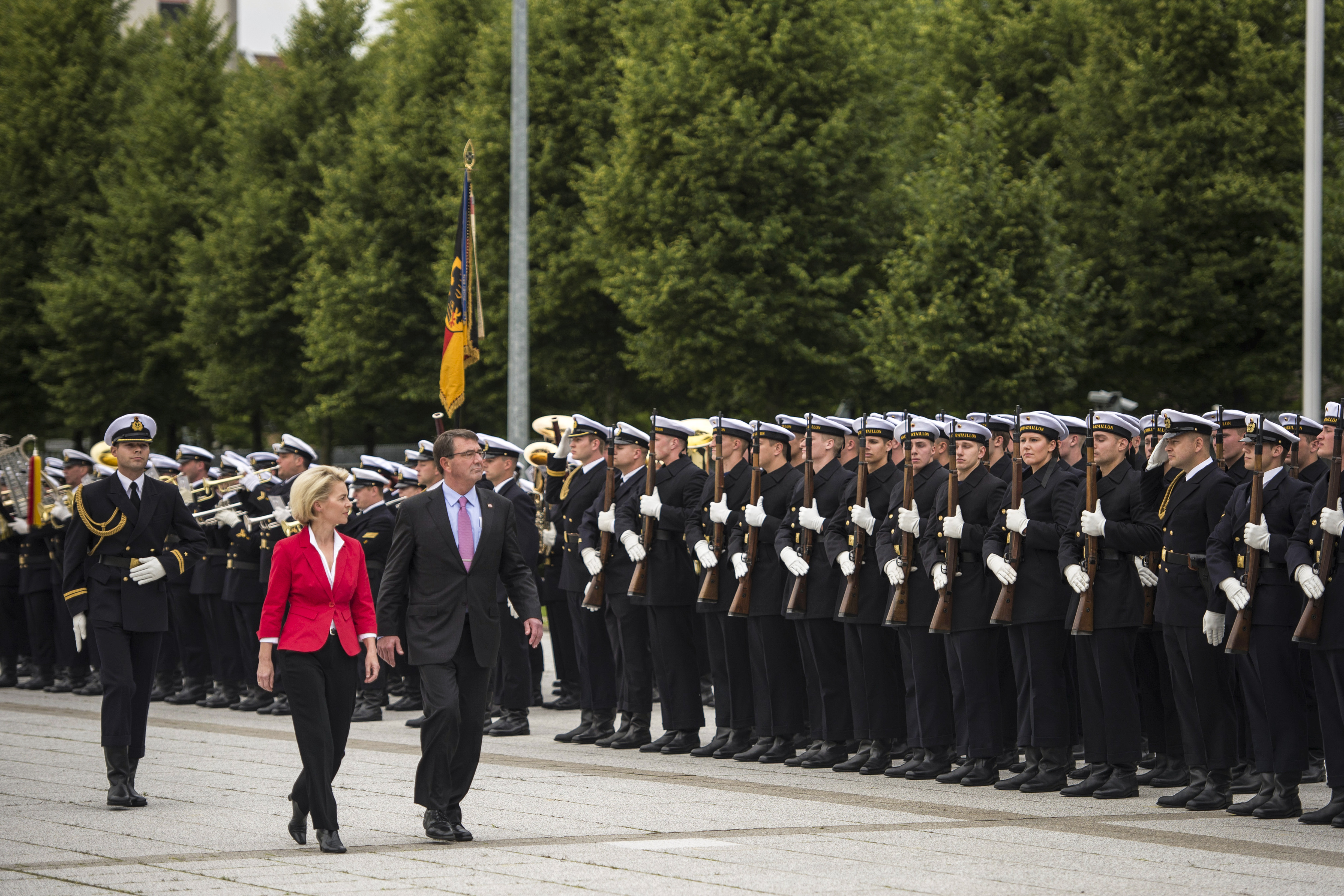 U.S. Defense Secretary Ashton Carter and German Defense Minister Ursula von der Leyen review German soldiers at the Ministry of Defense in Berlin, June 22, 2015. Carter is in Europe to meet with European defense ministers and participate in his first NATO ministerial as defense secretary.